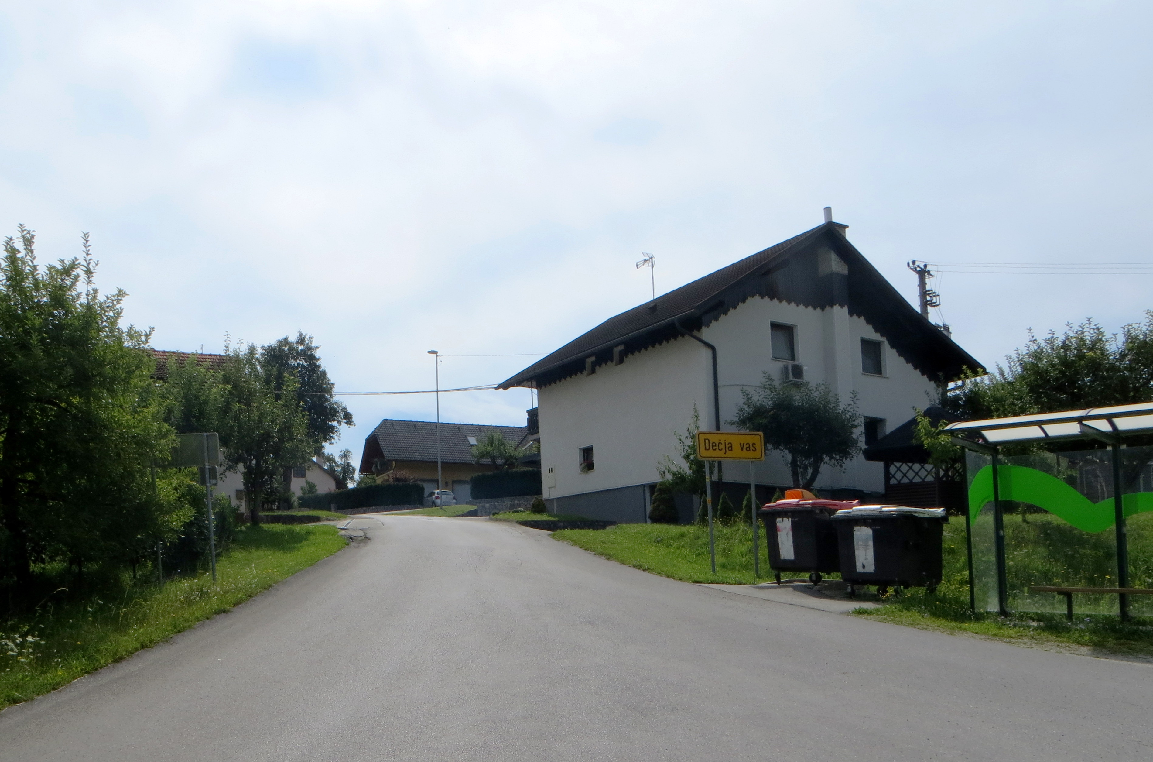 Dečja Vas pri Zagradcu, Municipality of Ivančna Gorica, Slovenia